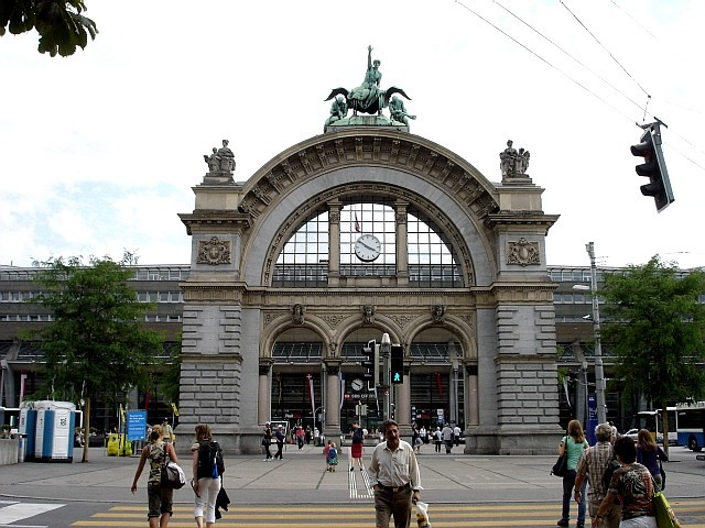 Luzernbahnhof